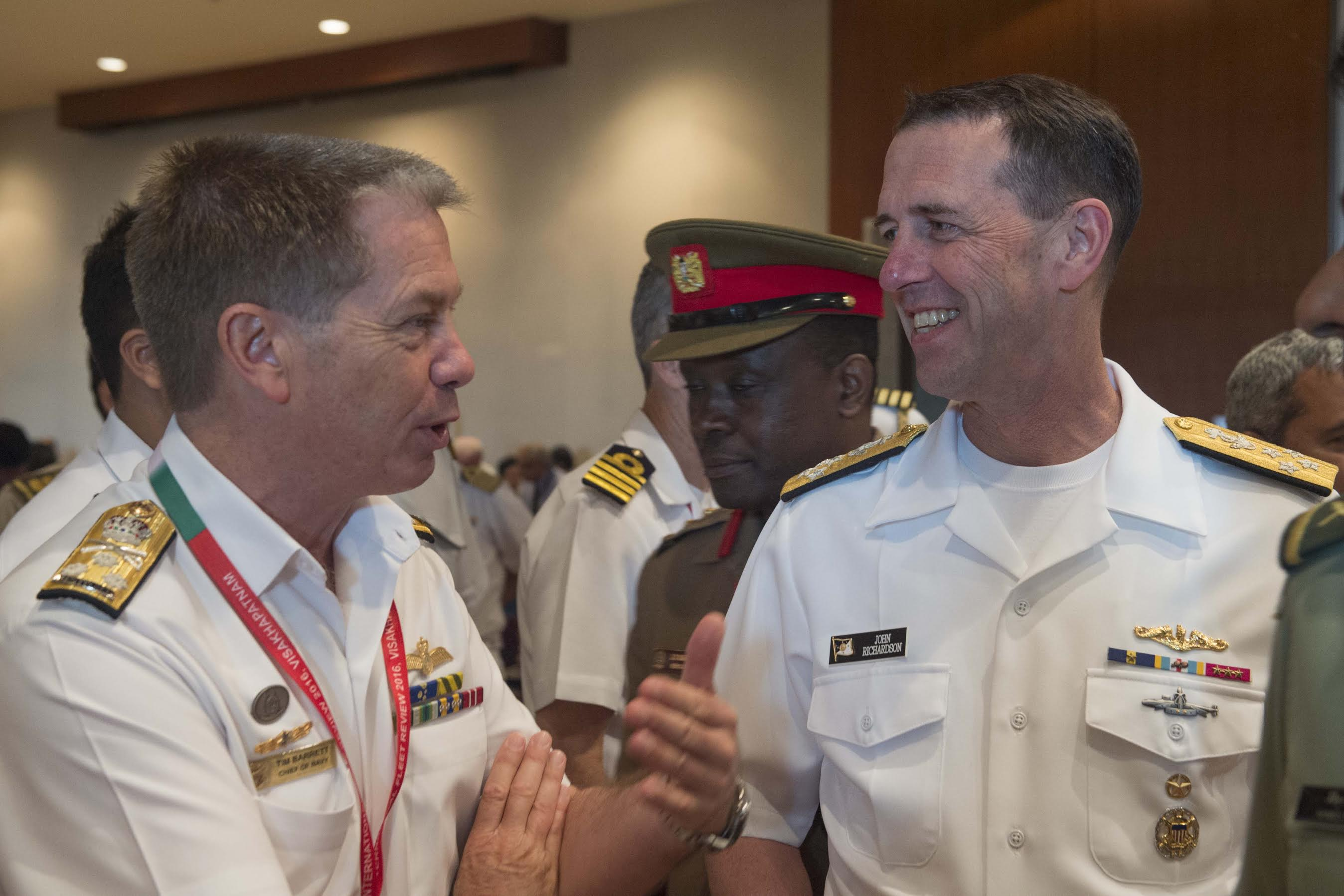 VISAKHAPATNAM, India (Feb. 5, 2016) Chief of Naval Operations Adm. John Richardson (CNO) talks with the head of the Royal Australian Navy, Chief of Navy Vice Adm. Tim Barrett, during India's International Fleet Review (IFR) 2016. IFR 2016 is an international military exercise hosted by the Indian Navy to help enhance mutual trust and confidence with navies from around the world. More than 50 navies around the world are participating, allowing the host nation an occasion to display its maritime capabilities and the "bridges of friendship" it has built with other maritime nations. (U.S. Navy photo by Mass Communication Specialist 3rd Class David Flewellyn/Released)